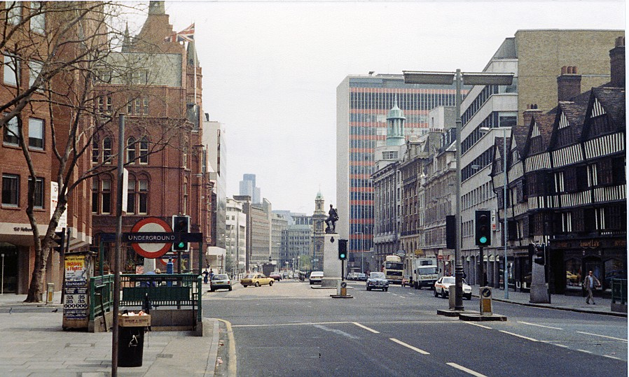 Eastward along High Holborn at corner of Grays Inn Road. View from the eastern exit of Chancery Lane Underground station. Grays Inn Road is on the left, Staple Inn (dating from 1585) on the right, Holborn Circus, Holborn Viaduct and much else ahead.